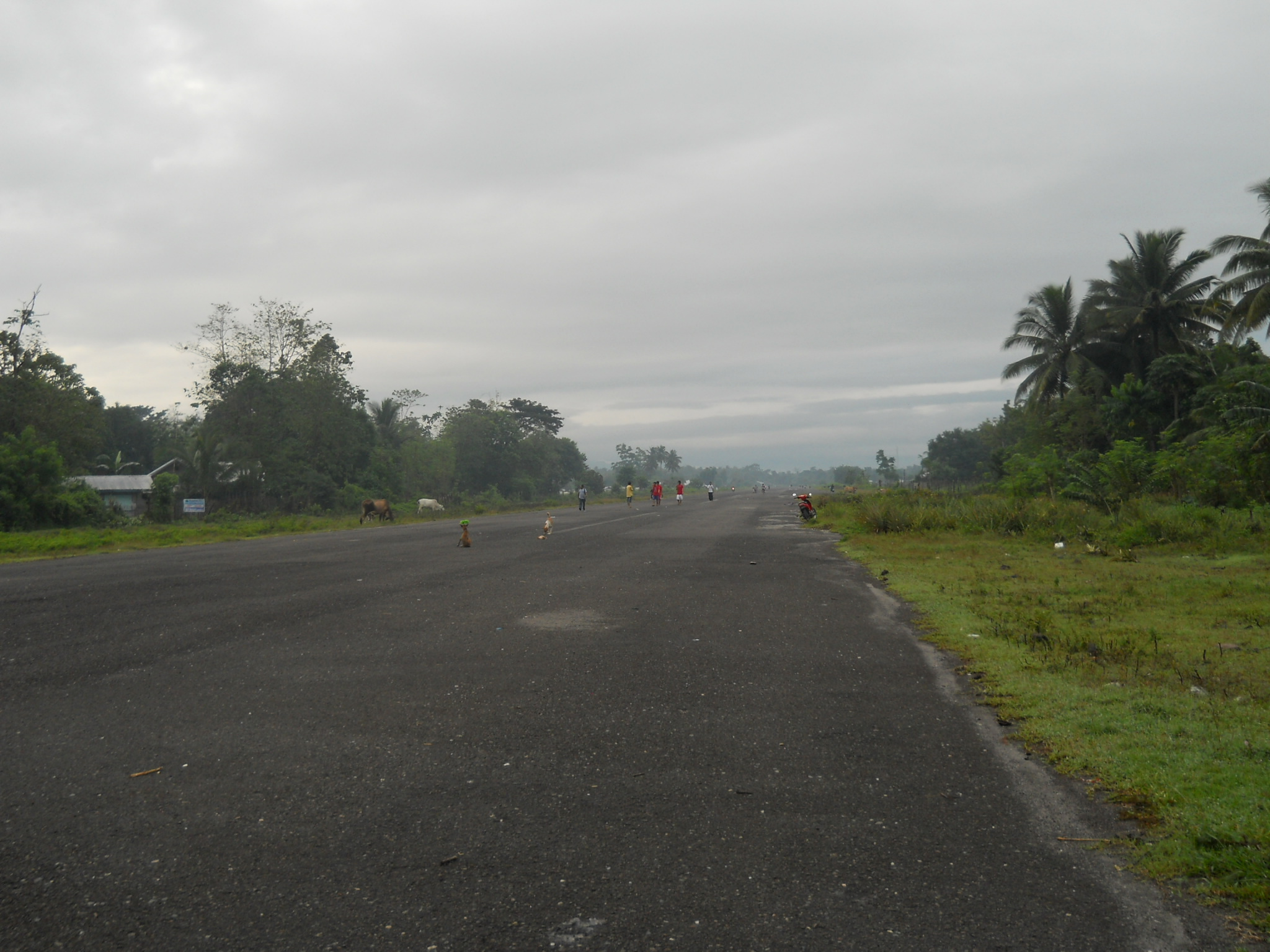 Surallah Domestic or Allah Valley Airport (closed), Surallah, South Cotabato